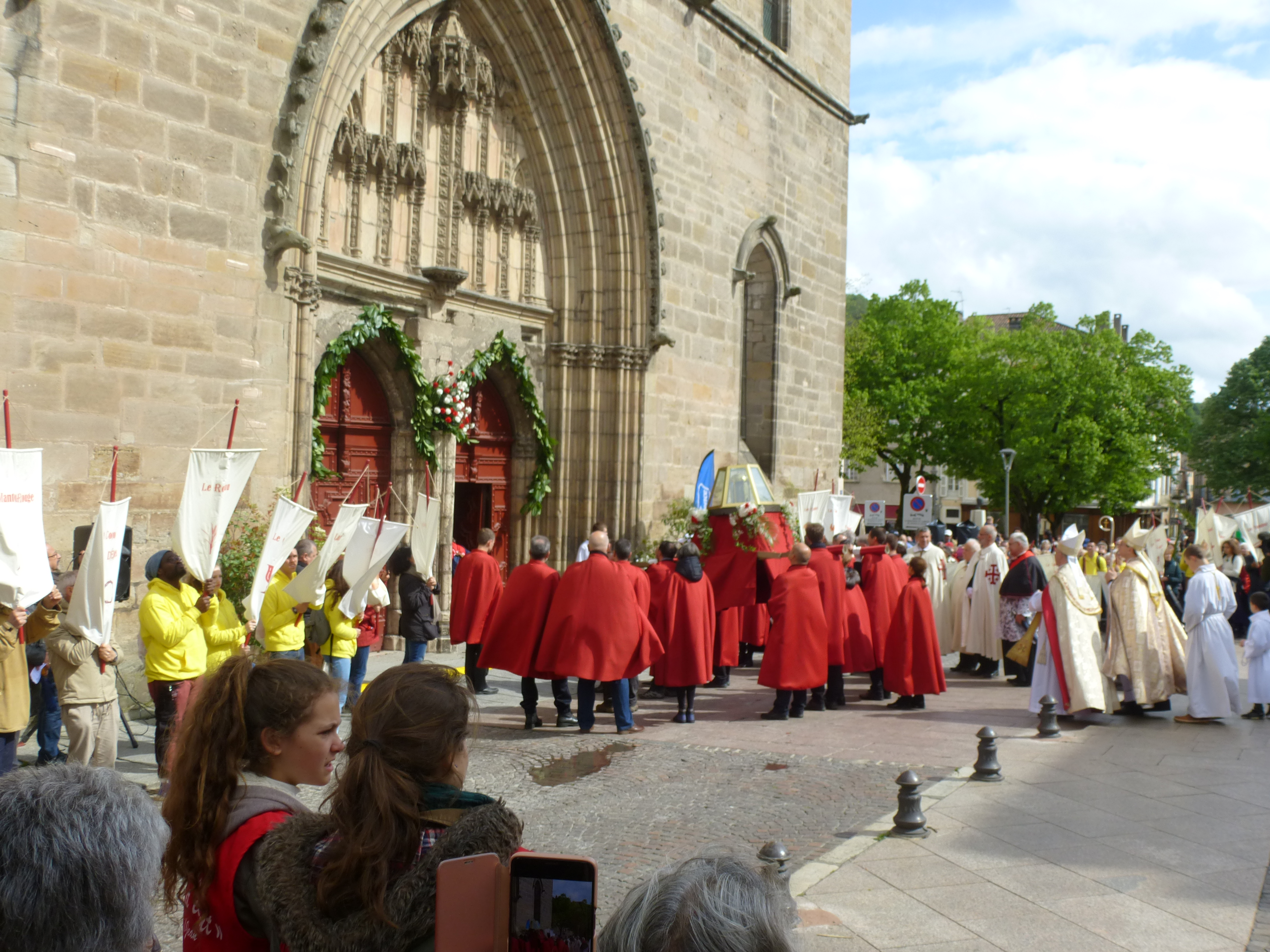 The Holy Coif's entrance into the Cathedral after the procession